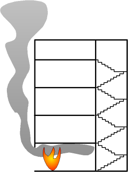 Effet bénéfique d'uneporte coupe-feu contre la propagation d'un incendie et pour la protection des habitants Beneficial effect of a fireproof door against the extent of a fire and for the protection of the inhabitants Auteur/author: Christophe Dang Ngoc Chan (cdang)